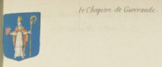 armorial of Guérande